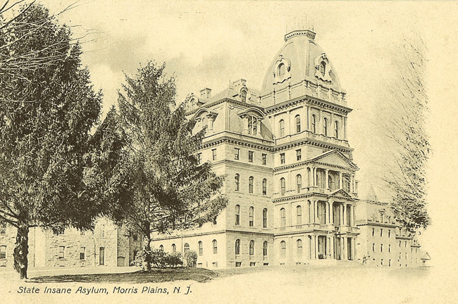 Postcard published in the U.S. before 1923. Source: Greystone Park Psychiatric Hospital archives.